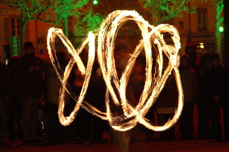 Photographer : Jean-Romain PAC Description : Fire master Location : Lyon, FRANCE